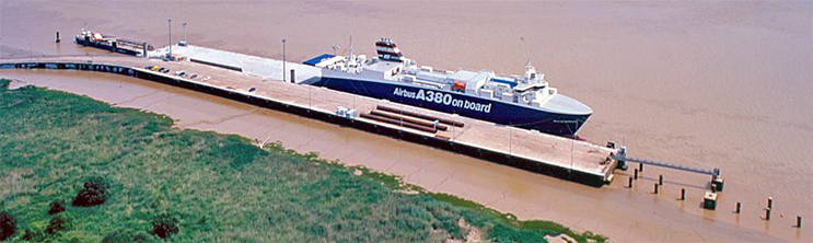 The RoRo ship Ville de Bordeaux unloading Airbus parts in Pauillac, near Bordeaux, France. The barge Breuil is visible on the left. IMO Number: 9270842 MMSI Number: 228084000 Callsign: FZCE Length: 154 m Beam: 24 m